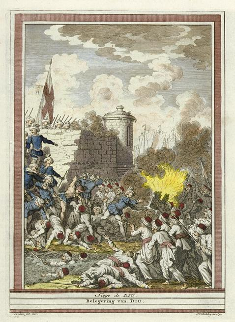 "Siege de Diu," a copper engraving from Prevost's "Histoire Generale des Voyages, c.1760, with modern hand coloring; *a larger, uncolored scan* (downloaded Nov. 2004)